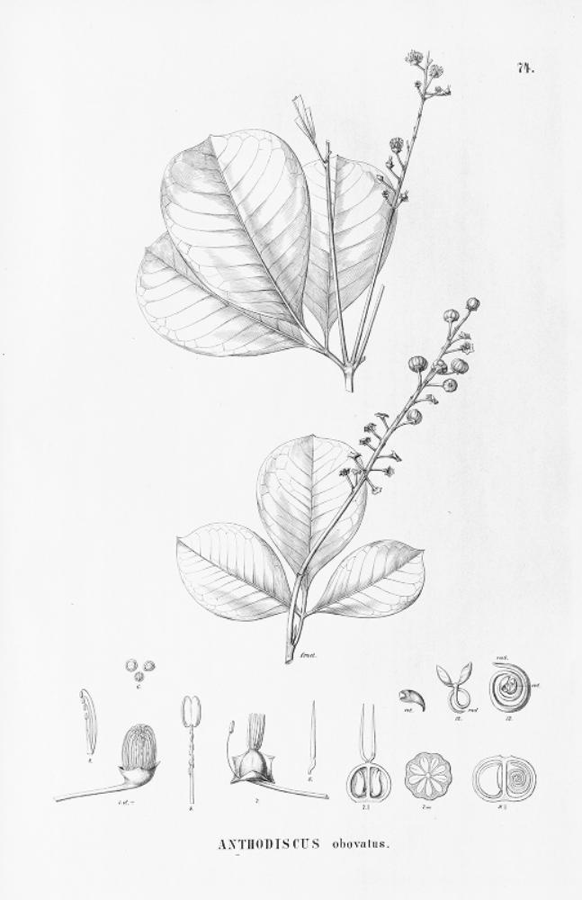 Illustration of Anthodiscus obovatus